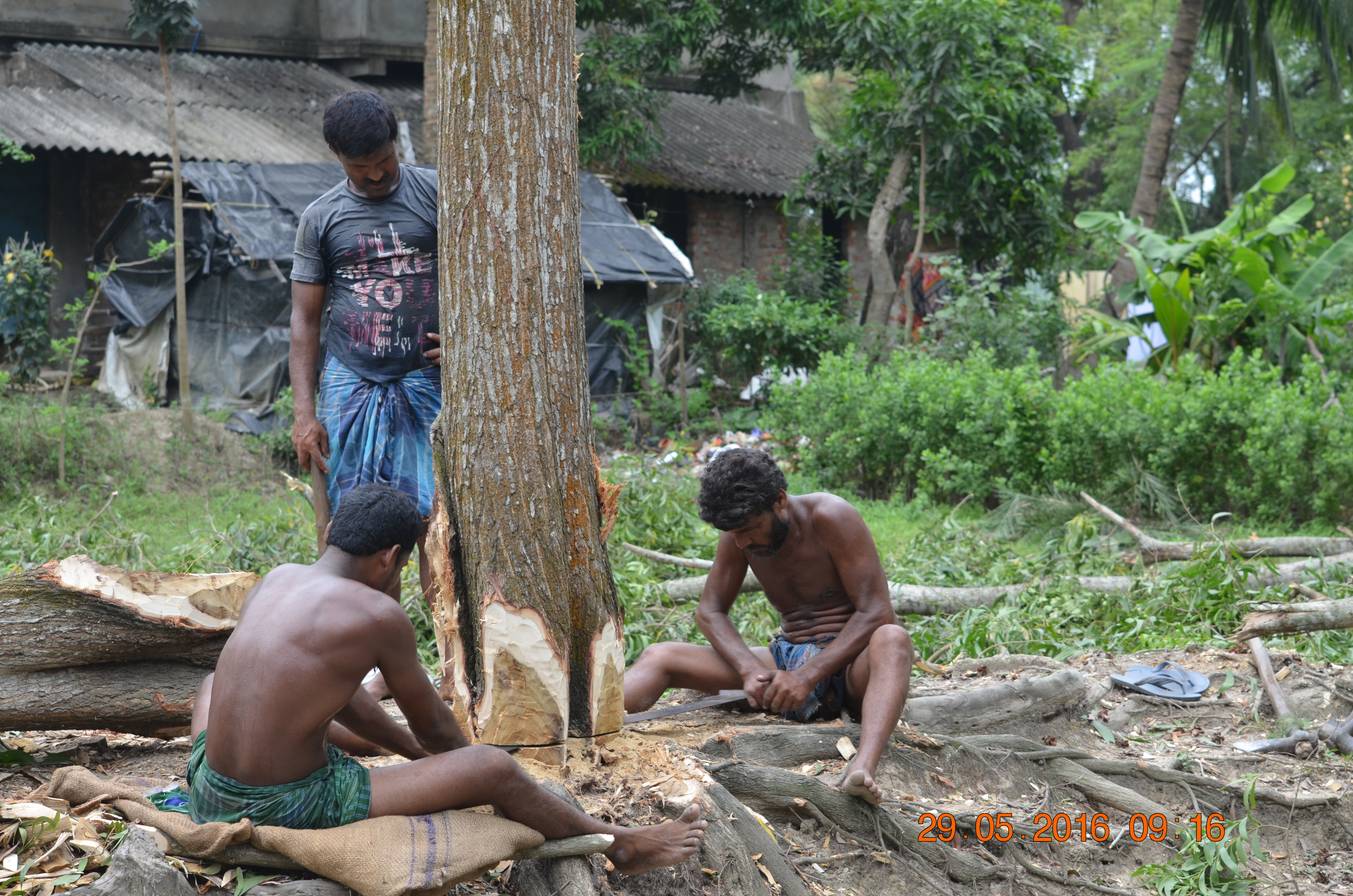 Wood cutter